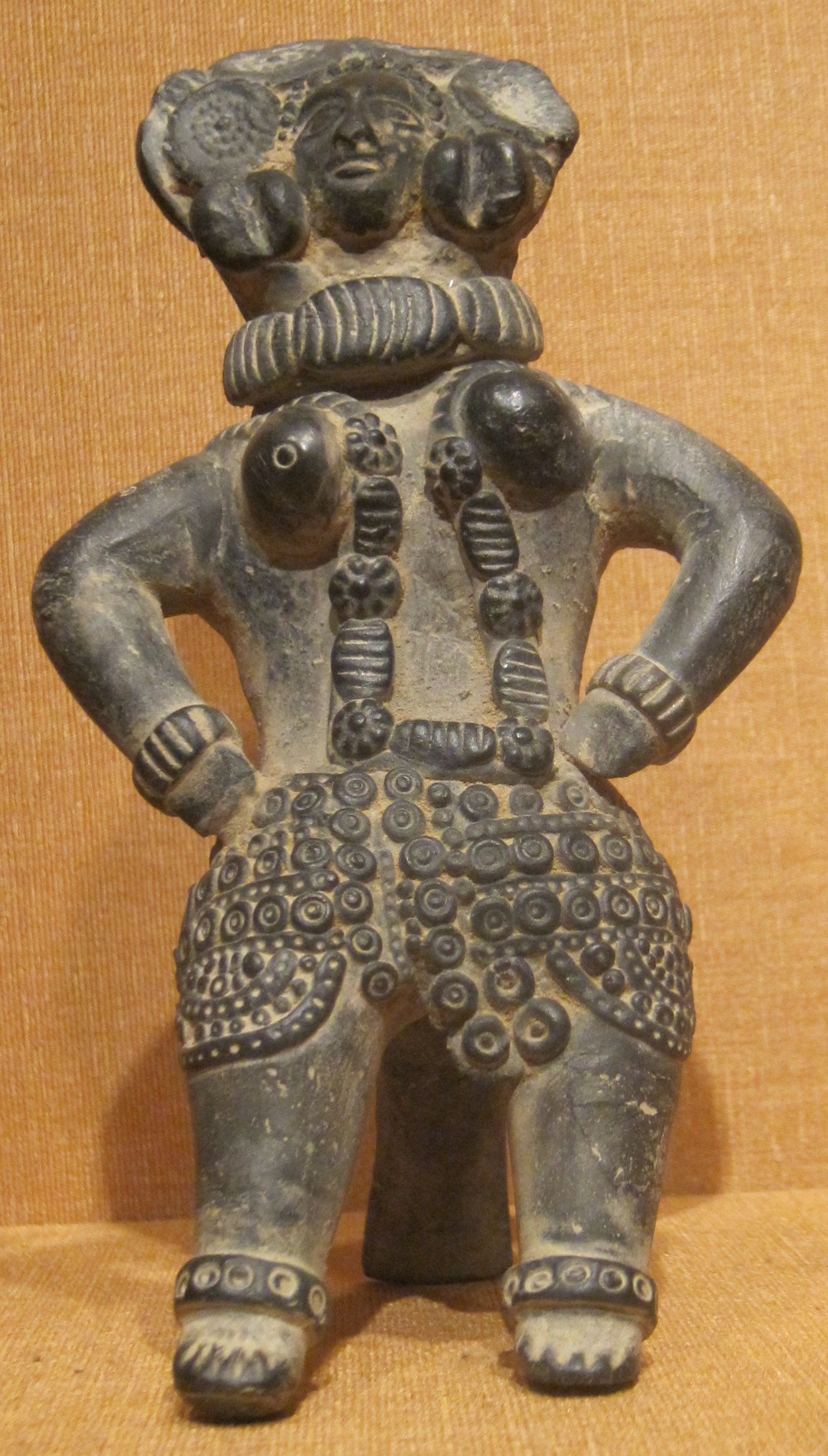 Female figure, northern India, Maurya period, c. 320-200 BCE, terracotta, Honolulu Academy of Arts